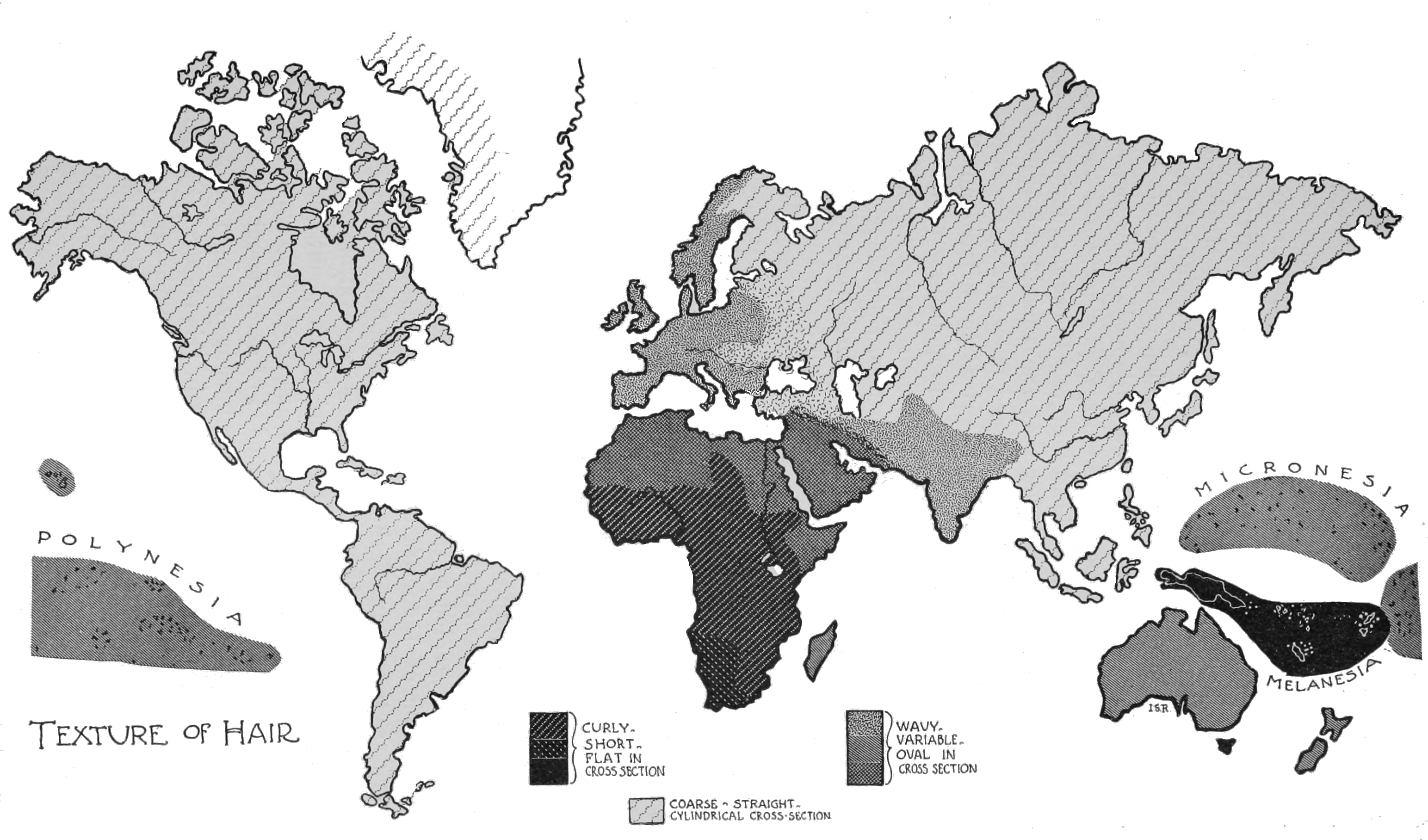 Global hair texture map version translated into Spanish